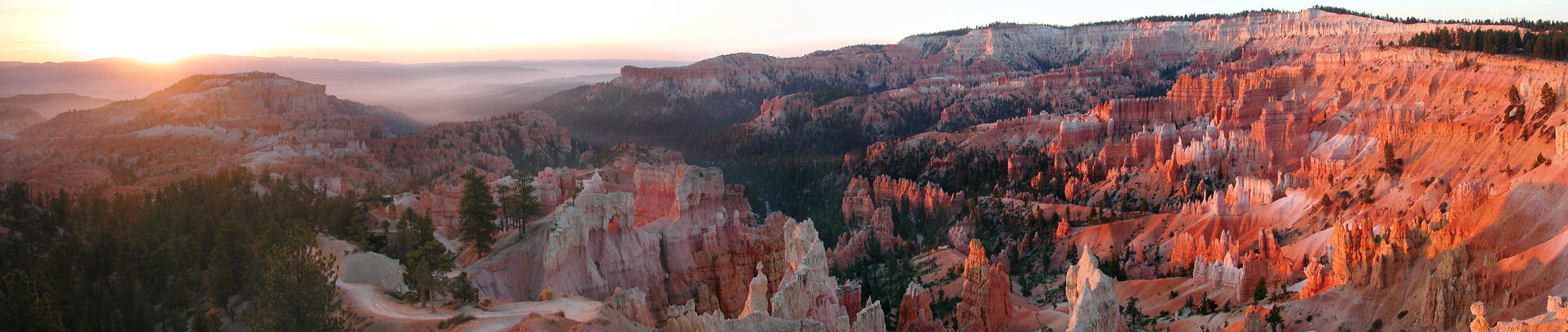 Bryce Canynon National Park, Utah, USA. Panoramic view